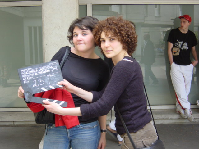 Picture of Virage Violent.